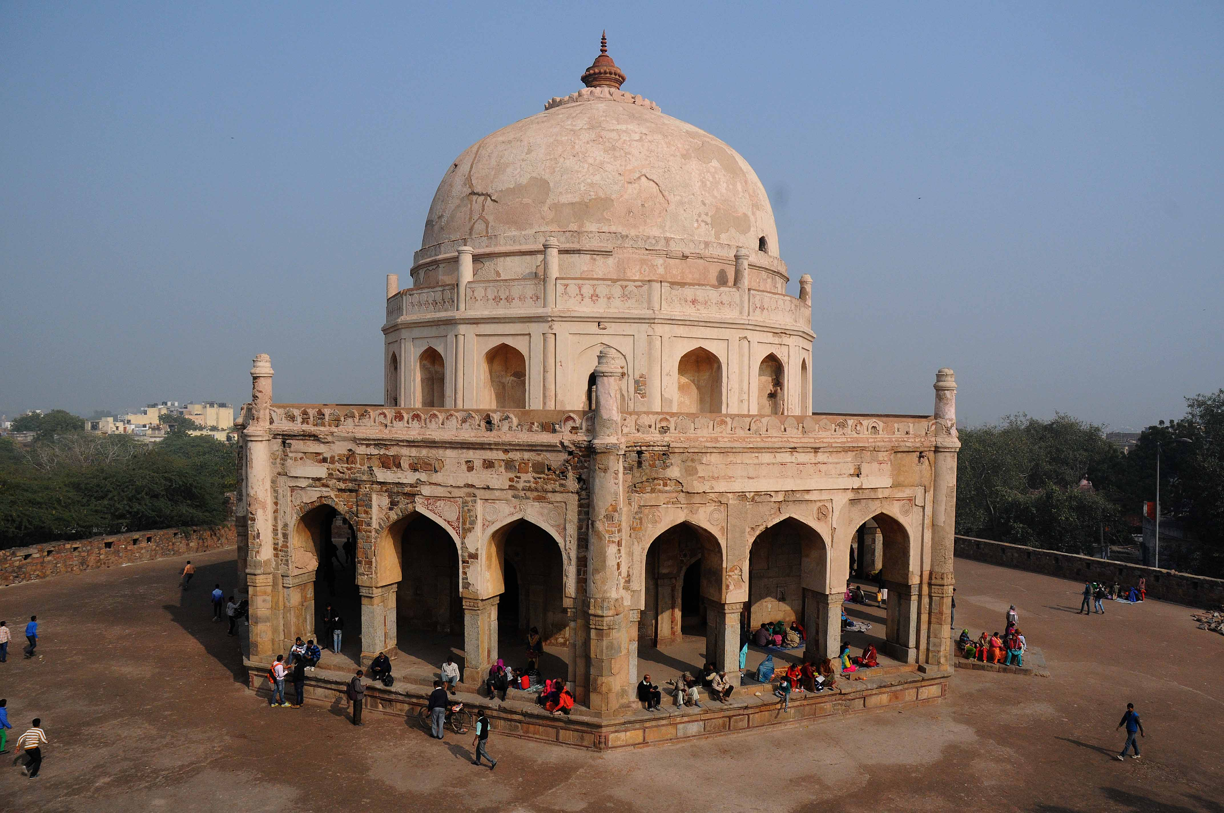 Adham Khan's tomb, which also house the tomb of his mother, Maham Anga, Mehrauli south Delhi.